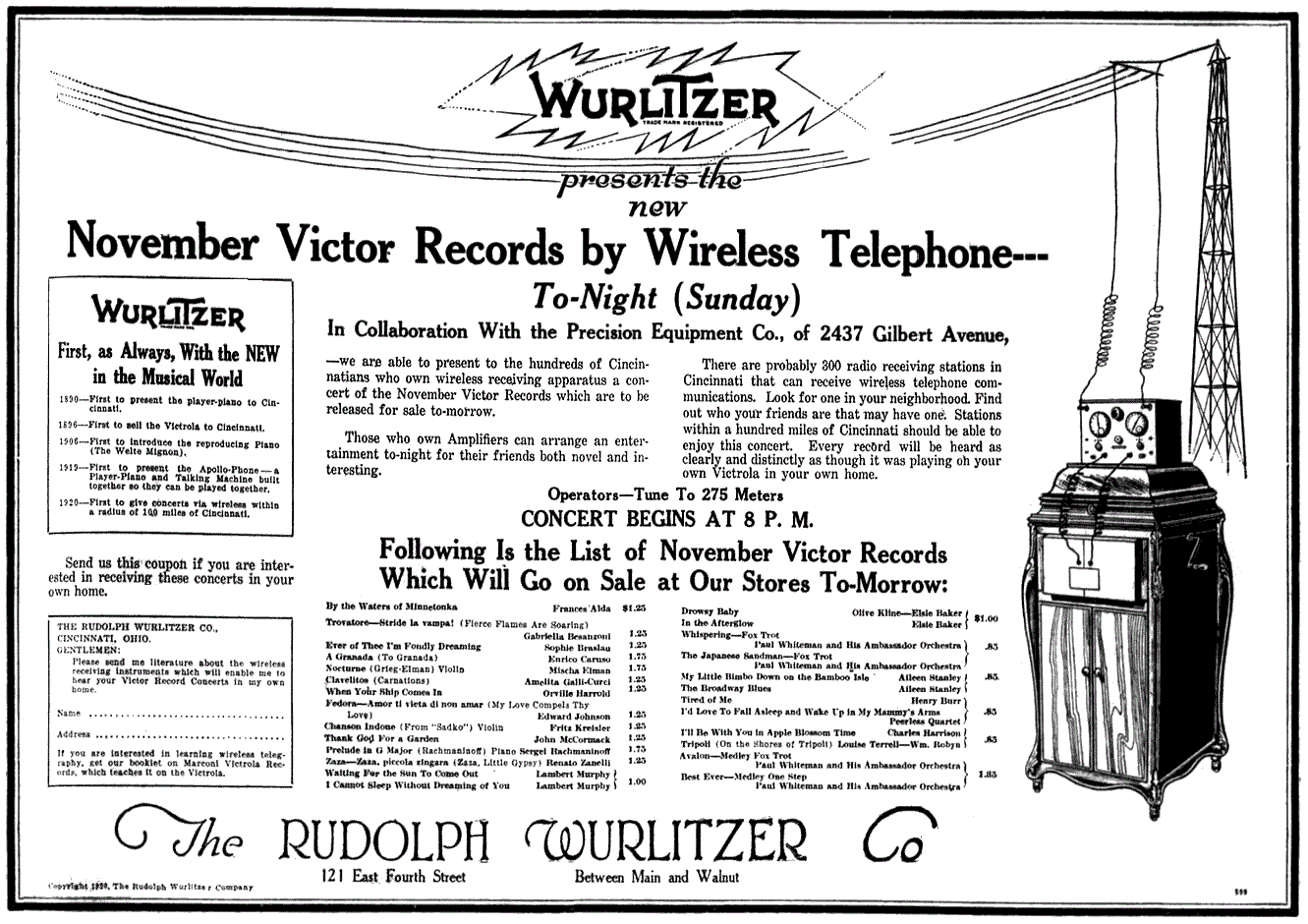 On the evening of October 31, 1920, the Rudolph Wurlitzer Company of Cincinnati arranged to have a special concert of Victor phonograph records played over the Precision Equipment Company's experimental radio station, 8XB.